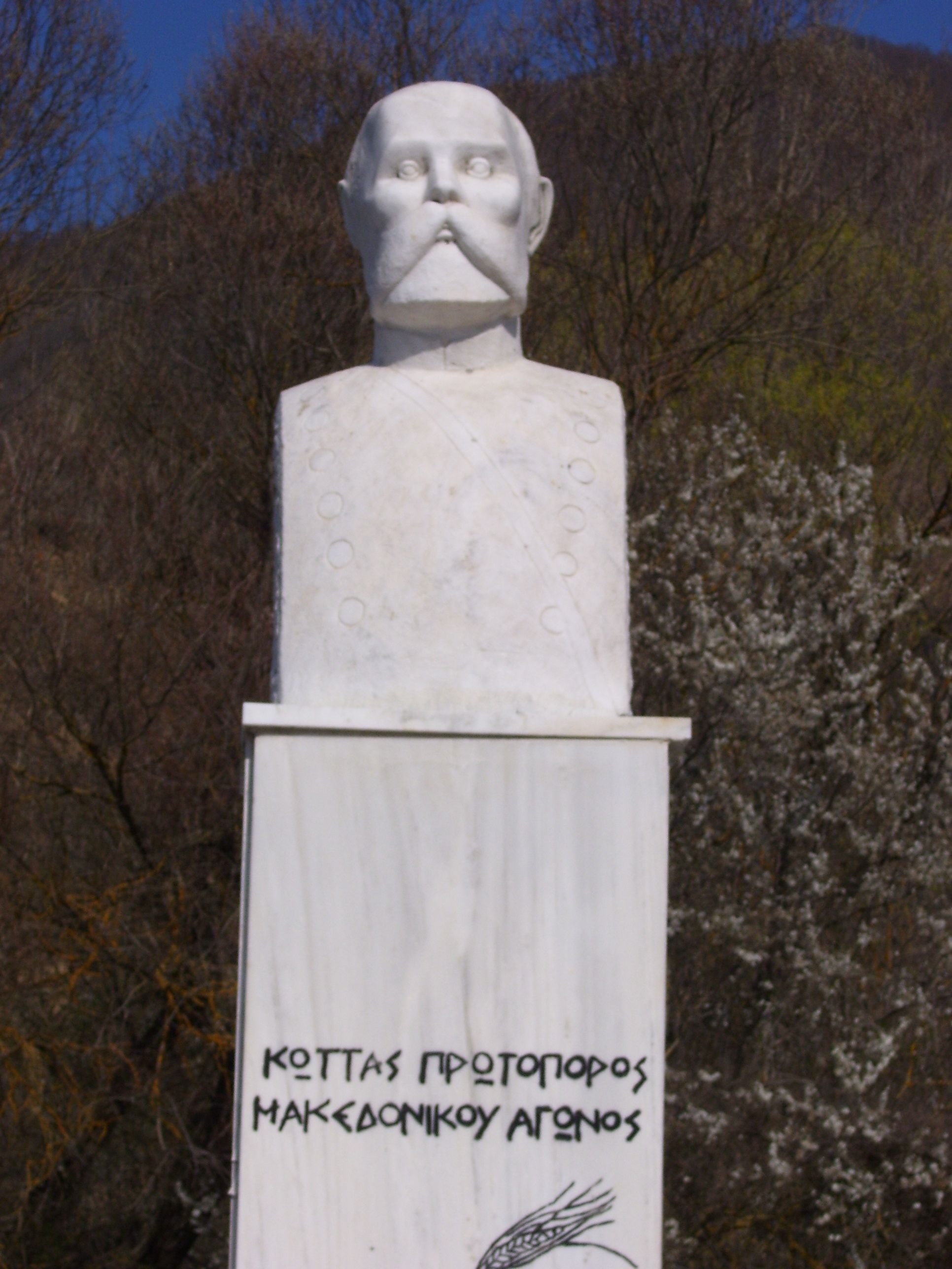 Monument of Kottas Christou in the village of Kotas, Greece.